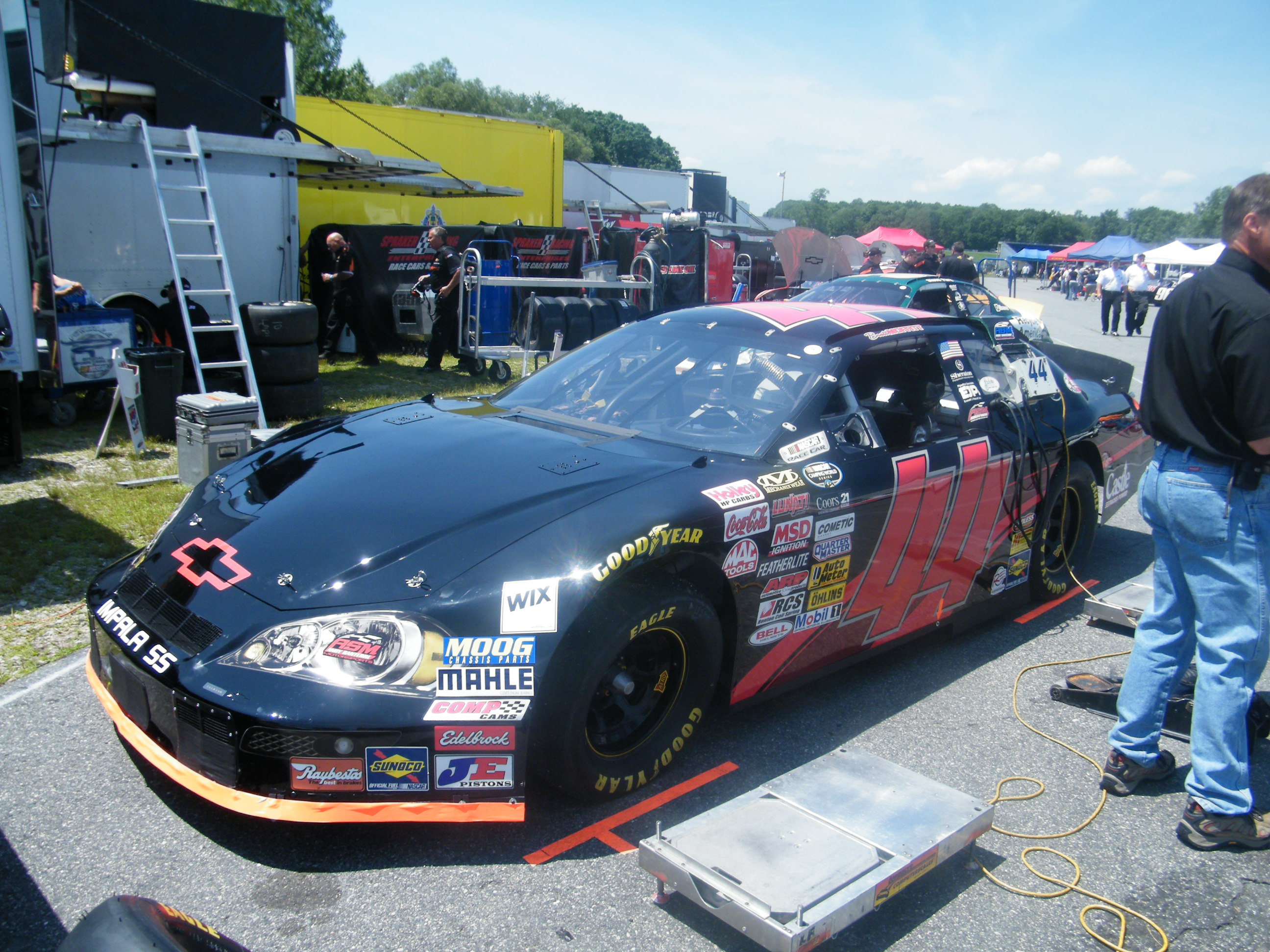 Brett Moffitt's 2009 #44 Chevrolet at Thompson Speedway, July 11, 2009.